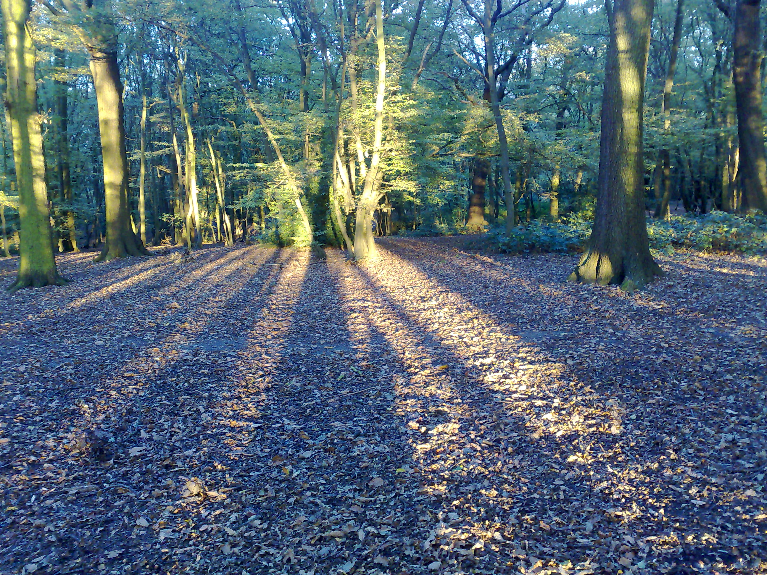 Shadows in Coldfall wood just as the sun was going down